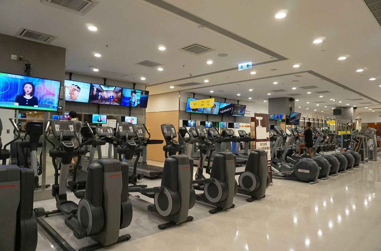 Physical Fitness in Kowloon Bay, Hong Kong.